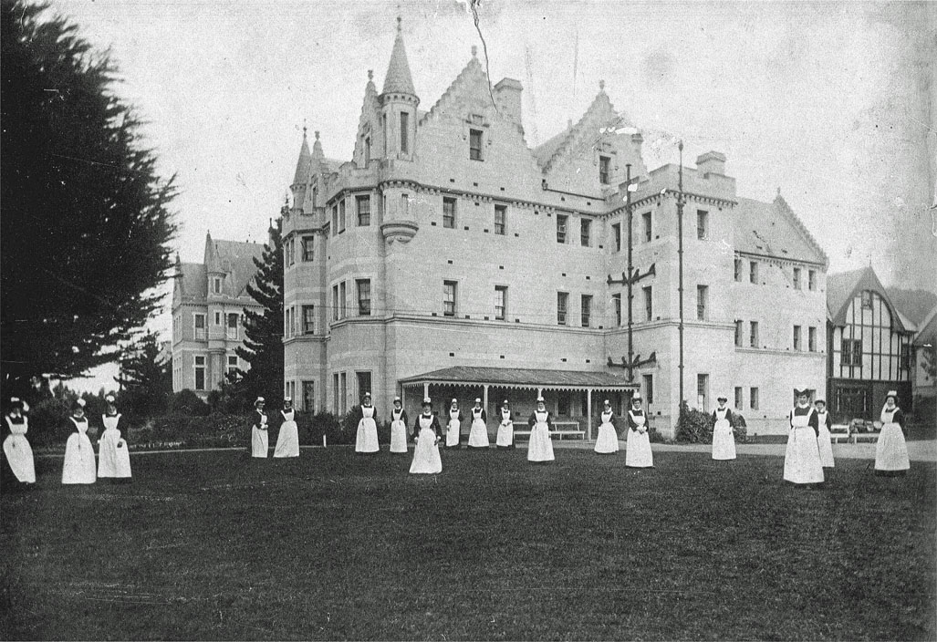 This collection illustrates aspects of the history of Seacliff Lunatic Asylum (later known as the Seacliff Mental Hospital) using the archives held by Archives New Zealand Dunedin Regional Office. We hold archives documenting the provision of care for the mentally ill, dating from the 1860s and to the 1970s. They were created by the Dunedin Lunatic Asylum, Seacliff Lunatic Asylum, Seacliff Mental Hospital and Cherry Farm Hospital. The photographs and images show the buildings and grounds of Seacliff Lunatic Asylum and aspects of the administration, particularly the work of the Medical Superintendent. Examples of case records for selected patients show the legal process for committing a person to the asylum, their medical treatment and discharge, although some patients remained at Seacliff Lunatic Asylum until their death. The exhibition includes a digitised copy of the published report of the 1891 Committee of Inquiry into Frederic Truby King's management of Seacliff Lunatic Asylum. Frederic Truby King was the Medical Superintendent from 1889 to 1921. The Report highlights the reforms Truby King made in the care of the mentally ill. Archives New Zealand Reference: DAHI/20271/D266/520d / R18830755 For more information Material from Archives New Zealand